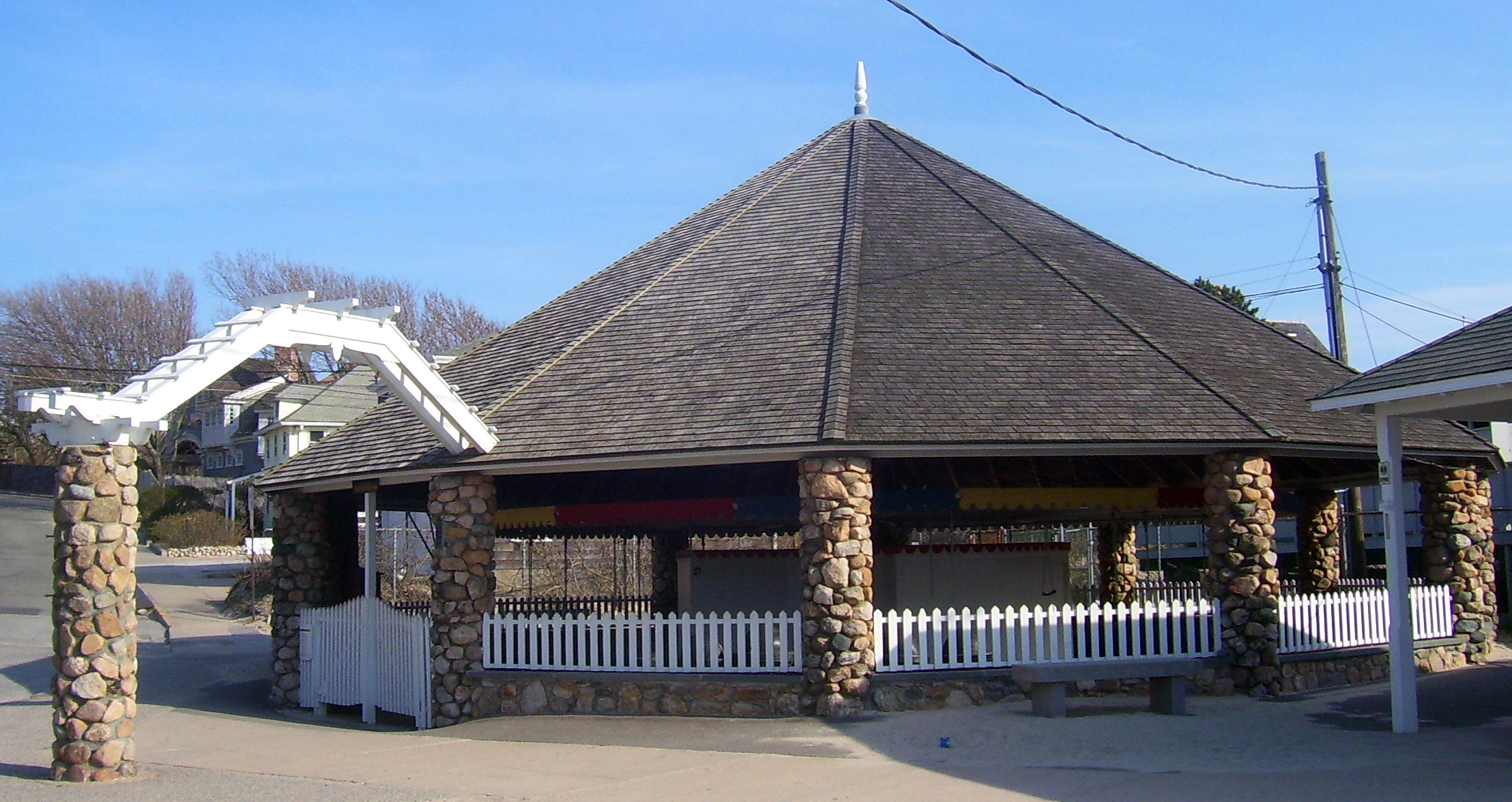 Flying Horse Carousel in Watch Hill, RI, USA. A National Historic Landmark as one of the earliest carousels in the USA, it is shown here closed for the off-season, with the horses in storage